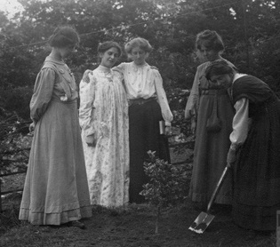 Millicent Browne planting tree with Mary Phillips, Vera Wentworth, Elsie Howey and Annie Kenney. This picture was taken by Colonel Linley Blathwayt and was stored on glass negatives. The Blathwayt's home of Eagle House way the home of Linley, Emily and Mary Blathwayt who all actively supported the suffragette cause. Nearly all the prominient UK suffragettes stayed with them and these photos and dozens of trees were planted to commemorate their visits. Col. Linley Blathwayt took these pictures between 1908 and 1912. He died in 1919. The pictures are made available in larger formats by .